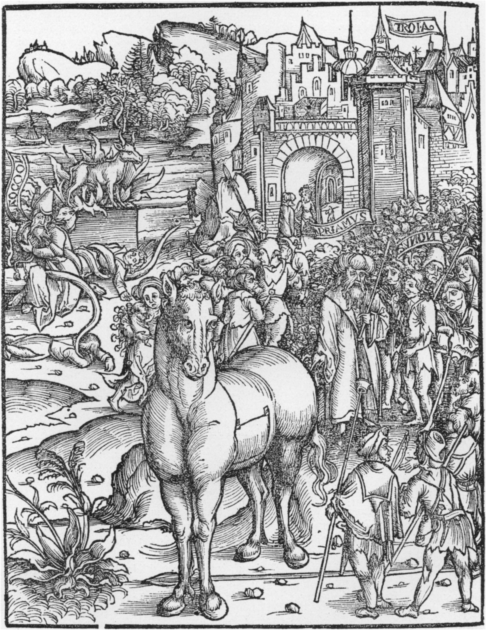 Woodcut of the Strasbourg Virgil made in 1502, folium 162v.